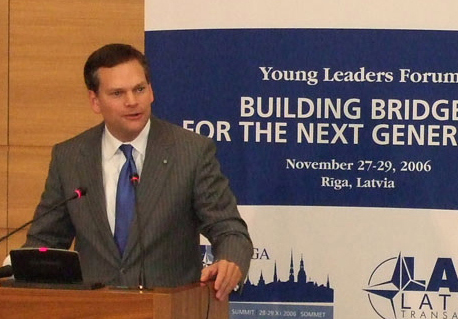 A photgraph of Stephen Payne speaking at NATO in 2006